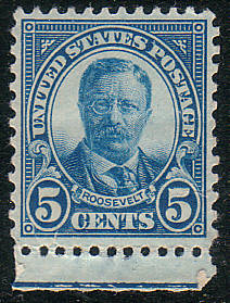 US stamp honoring Theodore Roosevelt